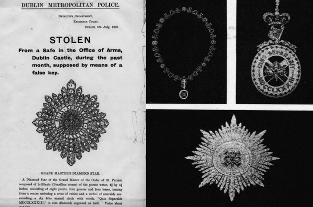 Irish Crown Jewels handout.